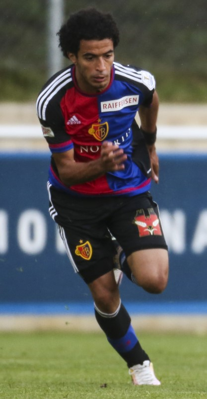 Omar Gaber